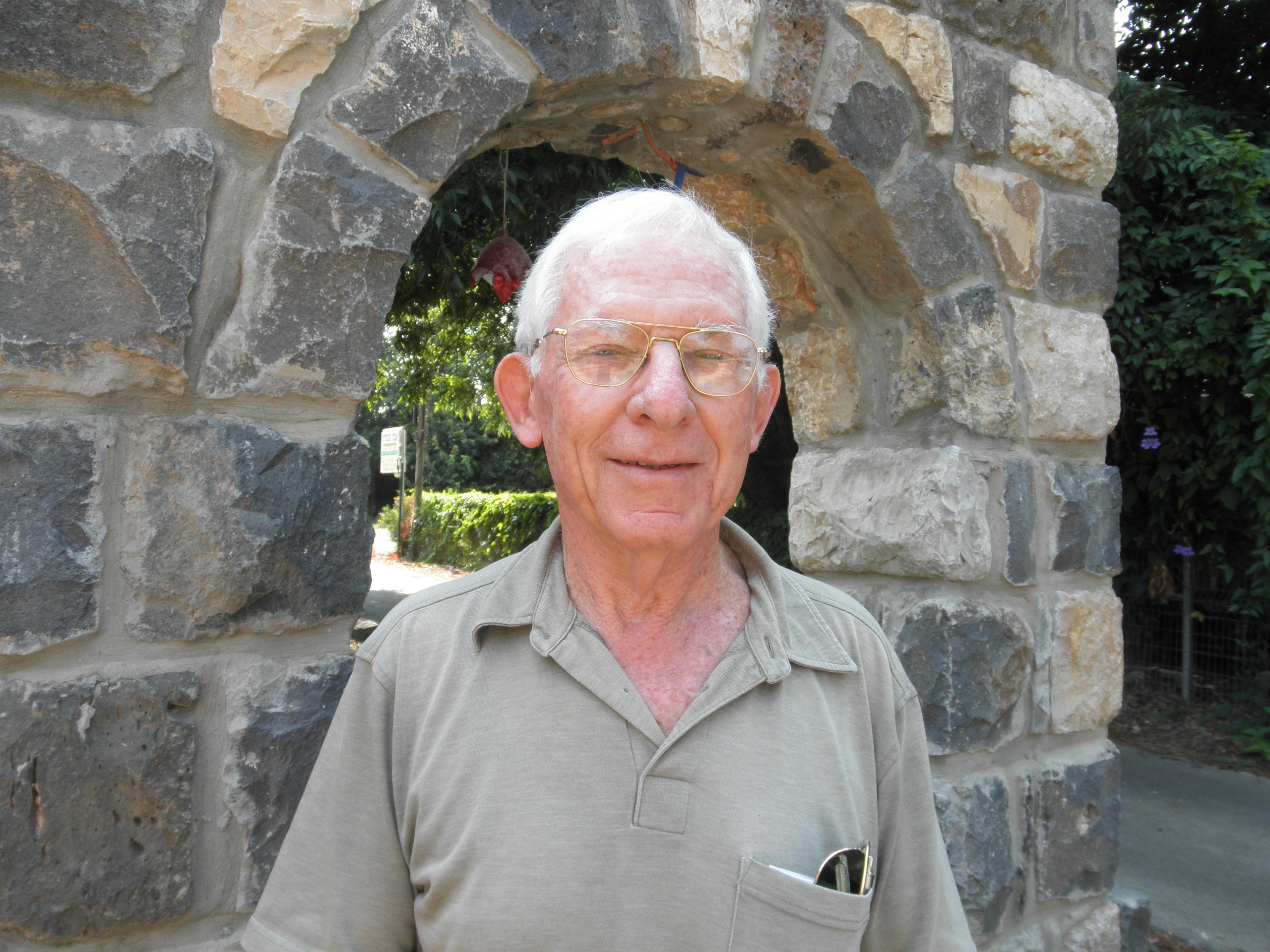 picture of amos lapidot